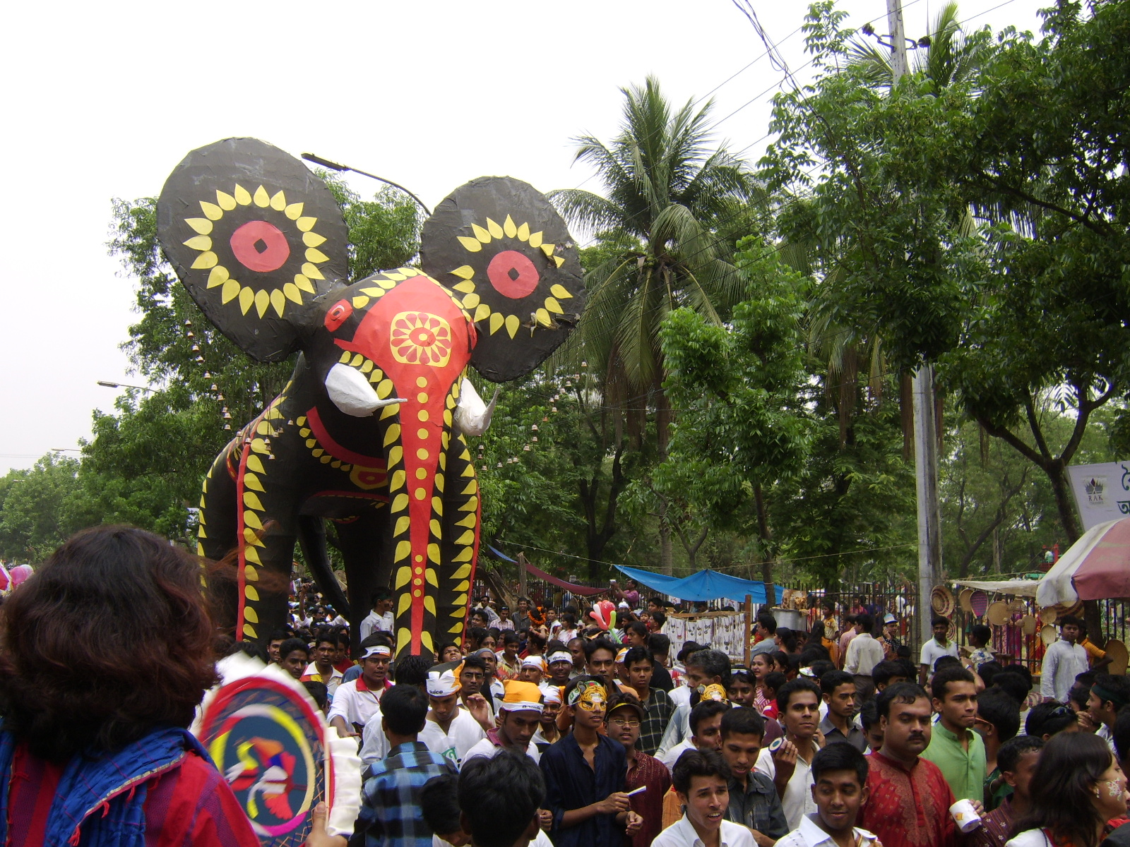 Pohela Boishakh Mongol Sovajatra at TSC.